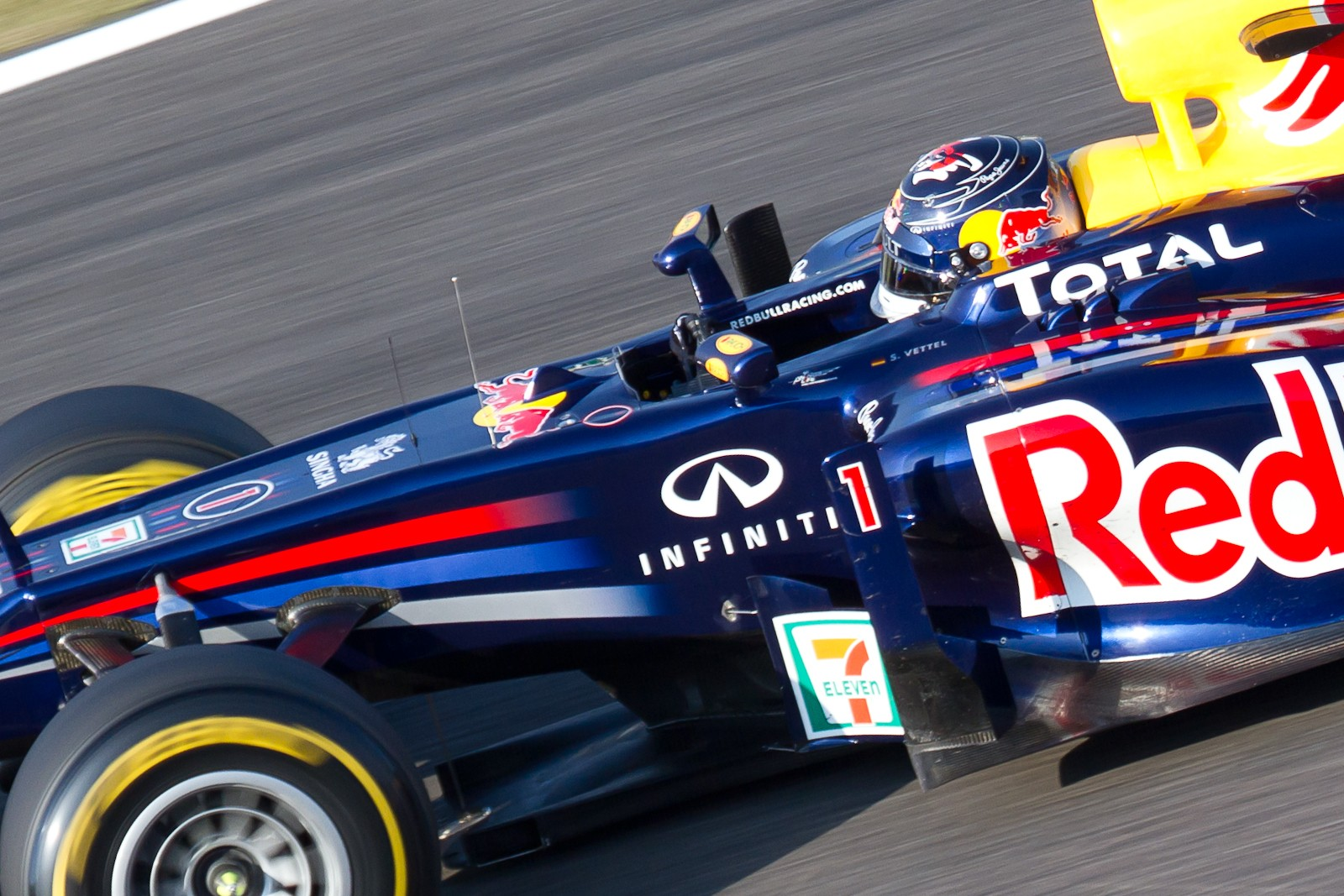 Formula One 2011 Rd.15 Japanese GP: Sebastian Vettel (Red Bull) during race.